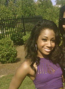 I took this picture of the lovely Tiffany Evans at a BBQ for the 4th of July. This photo isn't copyrighted because I want anyone to be able to use this picture :)